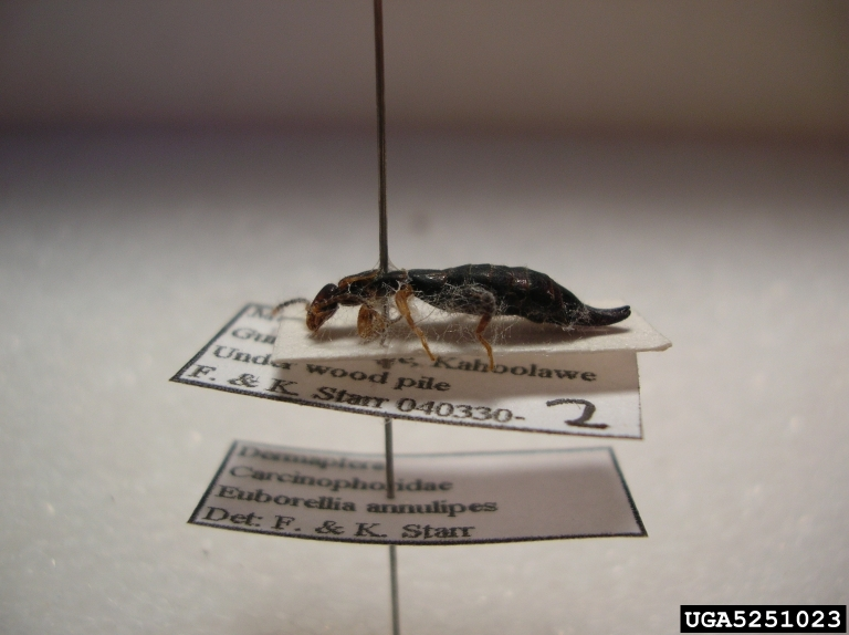 An adult male Euborellia annulipes, or Ringlegged earwig, taken in Gunfire range, Kahoolawe, Hawaii, United States.